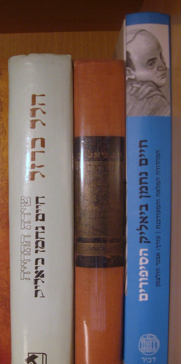 bialic books